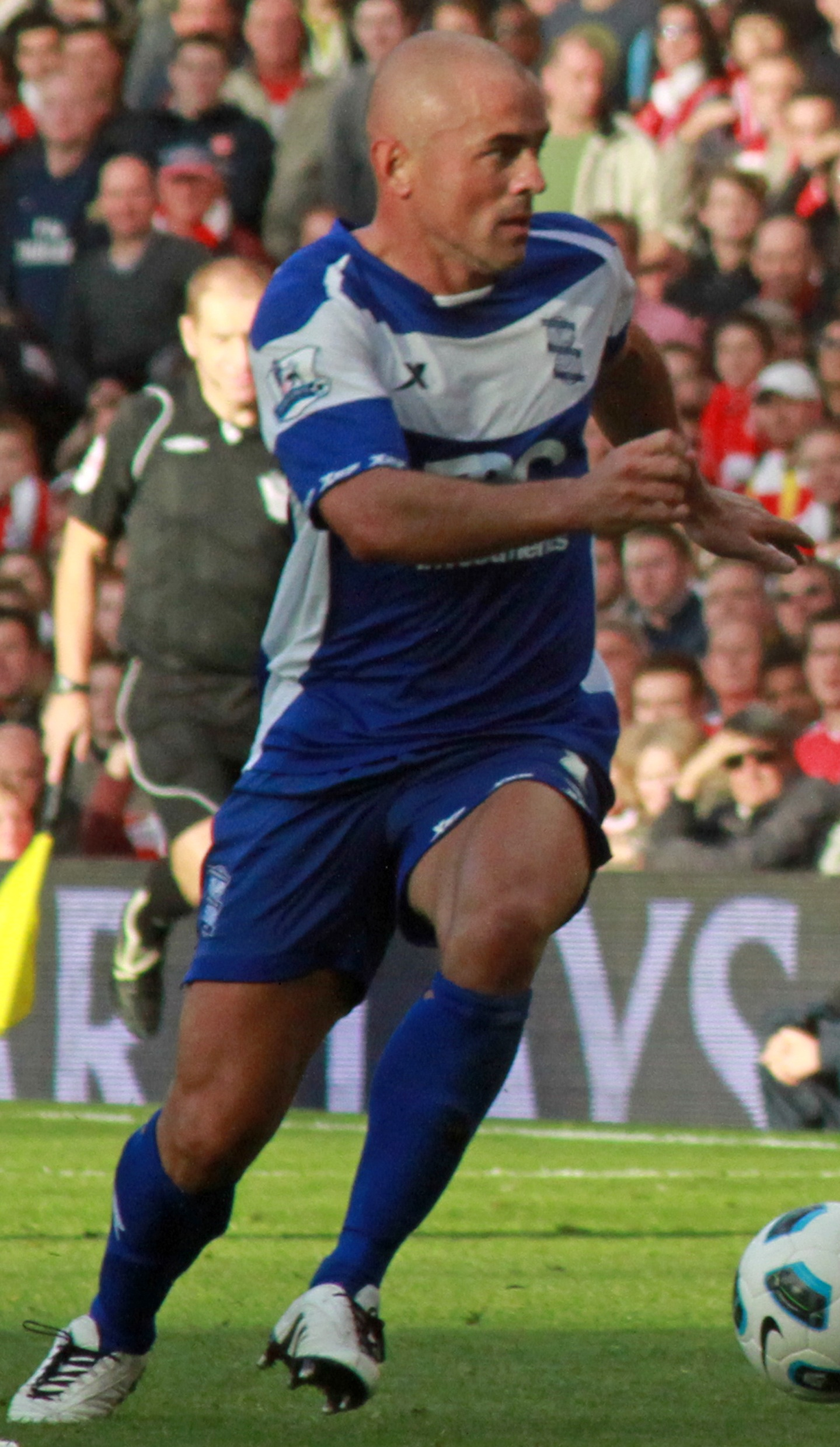 Arsenal v Birmingham City The Emirates 16 October 2010 (2-1)